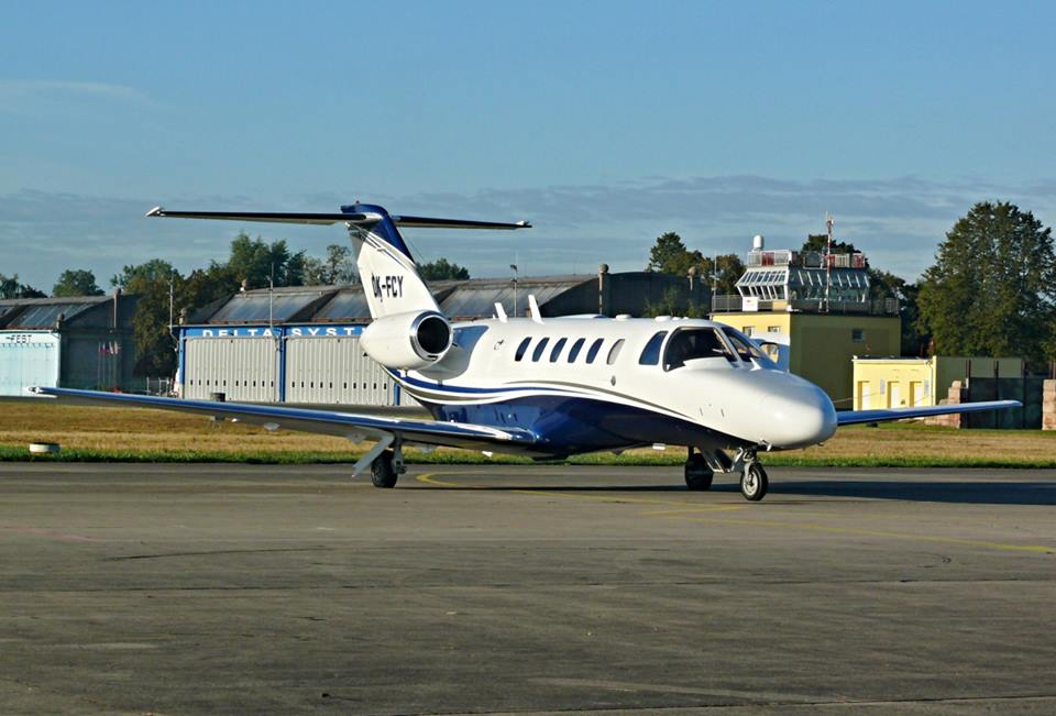 Cessna CitationJet CJ2 OK-FCY. Early morning departure to Denmark